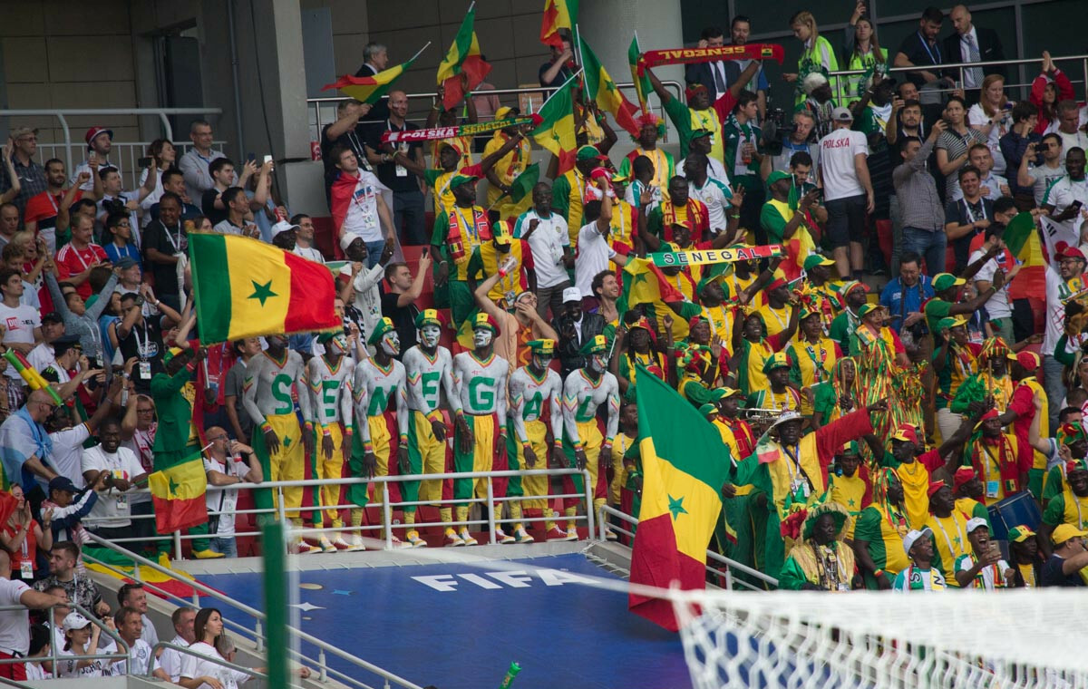 Senegal vs Poland match